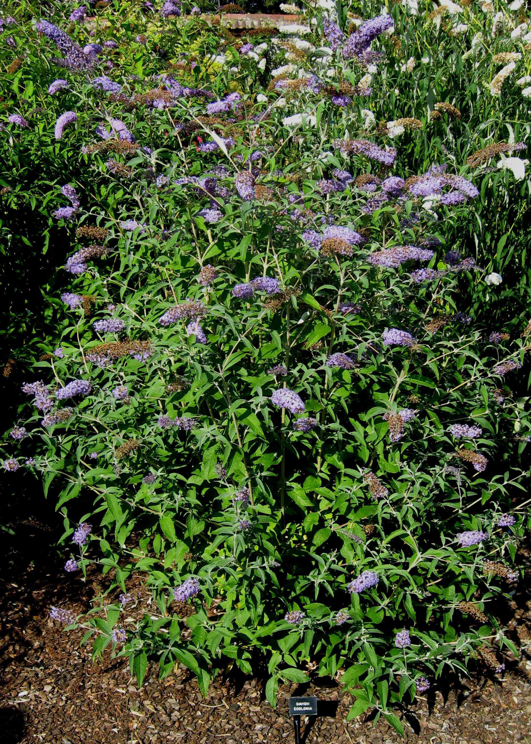 Photo of Buddleja cultivar taken at Longstock Park Nursery, UK, NCCPG national collection holder